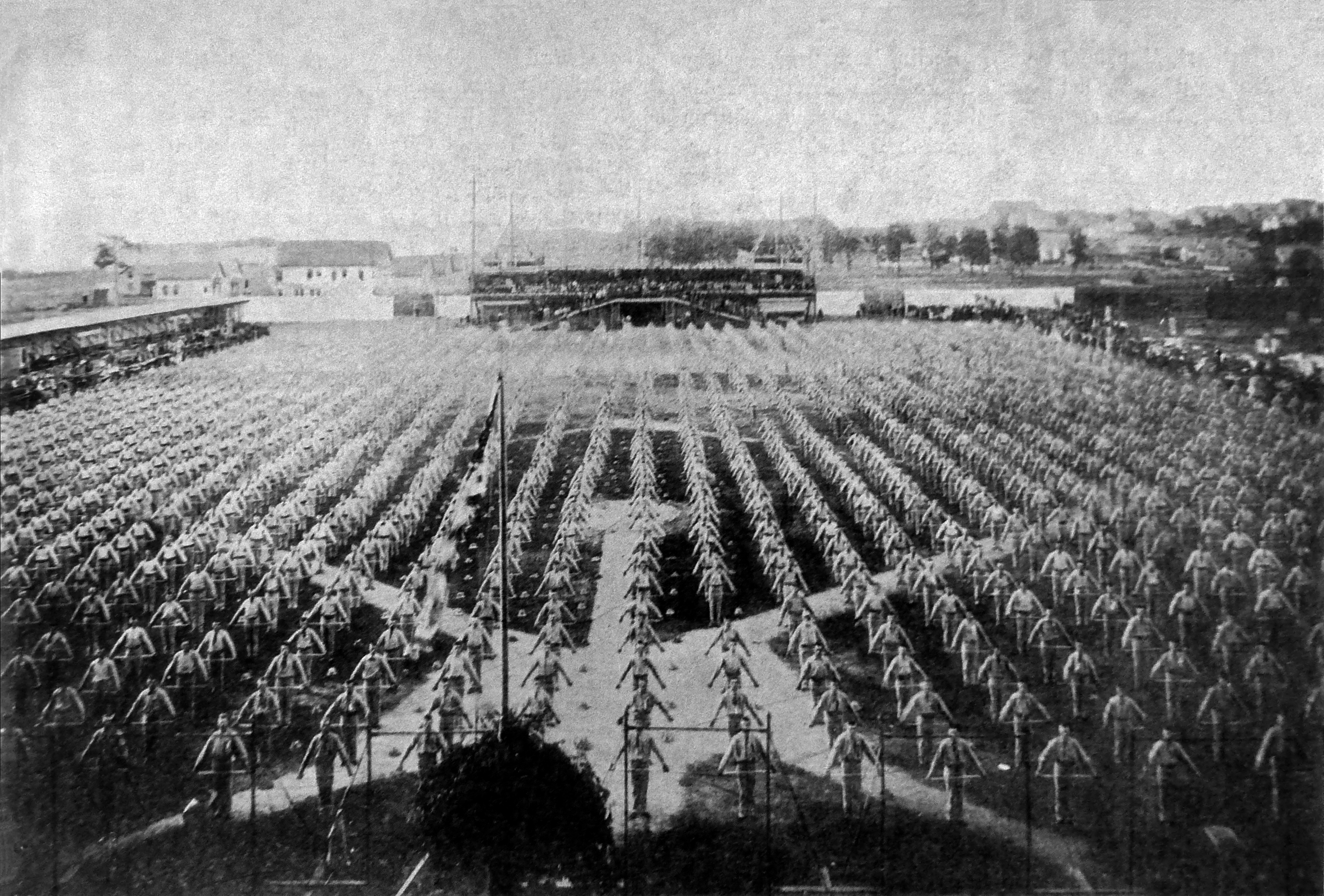 The 26th Federal Gymnastics Festival at Milwaukee in 1893. Iron bar exercises by 3000 "activists." George Brosius, leader.